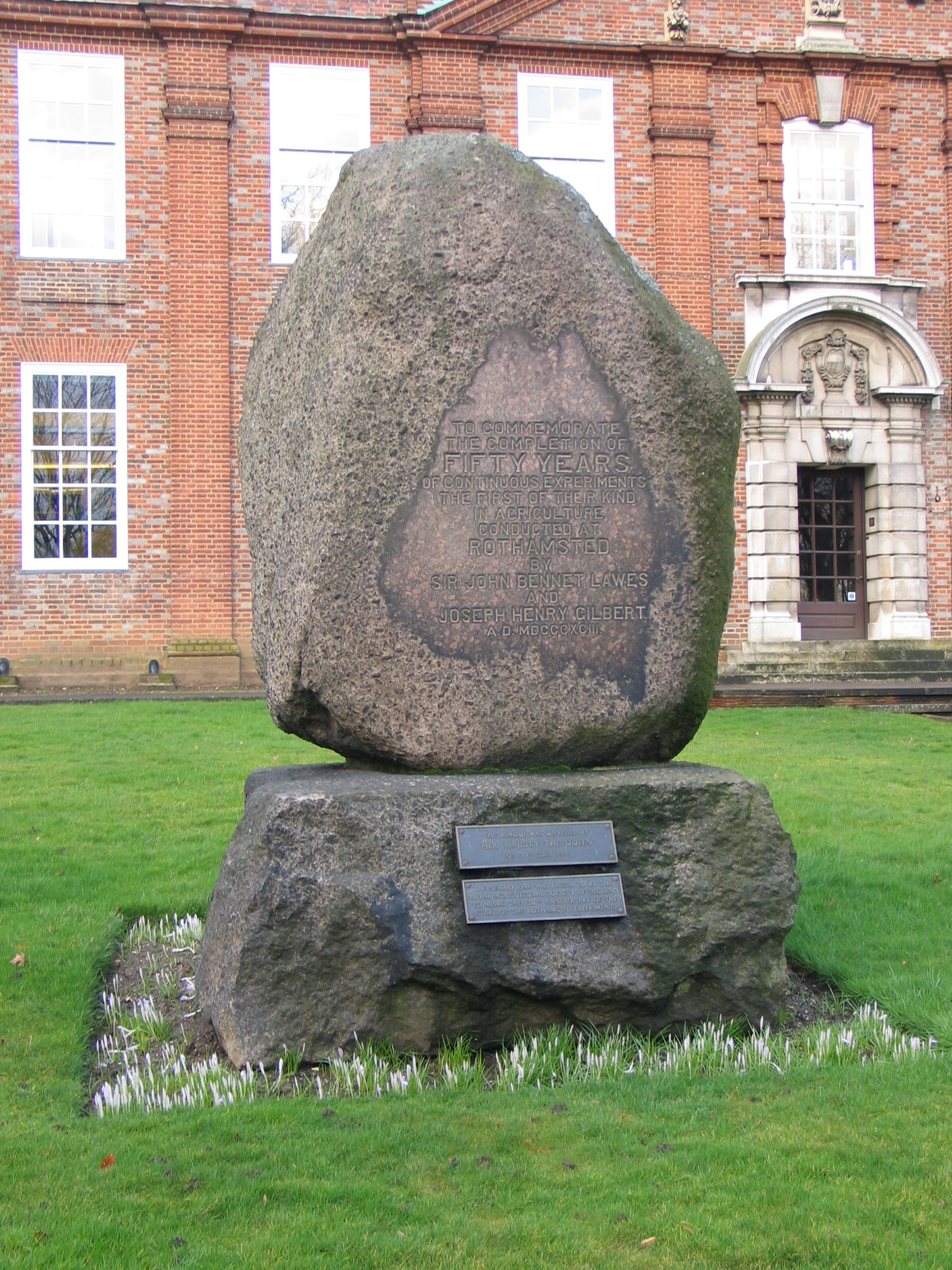 Plaque in front of the Rothamsted agricultural research centre in Harpenden, England, commemorating 50 years of operation. The plaque reads: "To commemorate the completion of fifty years of continuous experiments (the first of their kind) in agriculture conducted at Rothamsted by Sir John Bennet Lawes and Joseph Henry Gilbert. A.D. MDCCCXCIII." The signs below read: "This plaque was unveiled by Her Mayesty the Queen on 30th July 19[?]93." and "The nearby oak was planted by the Royal agricultural society of England to mark the 150th anniversary of the start of the Rothamsted experiments".